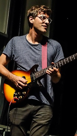 Matt Mondanile performing with Real Estate at the Flying Dog Brewery in Frederick, Maryland on September 27, 2014.